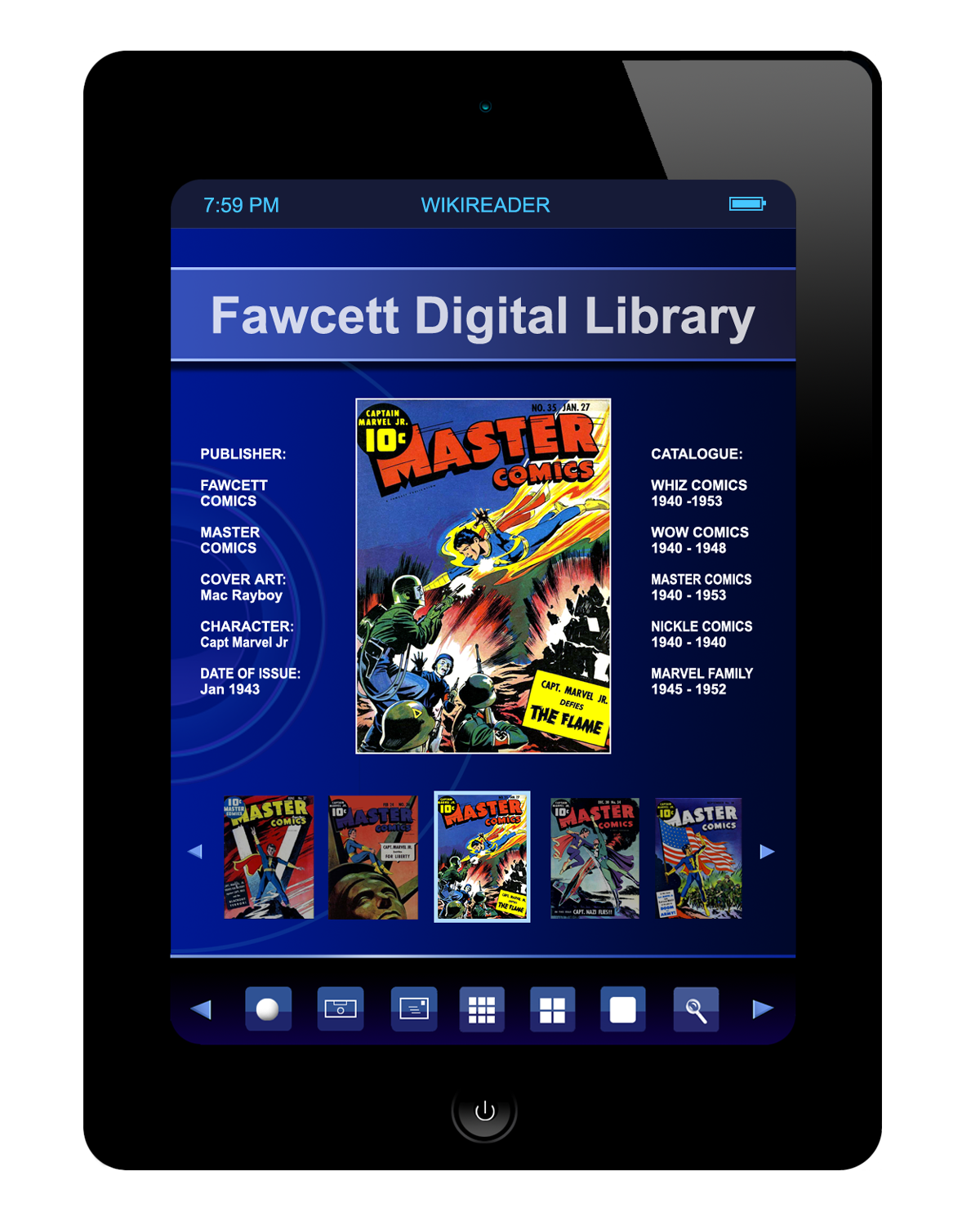 Faux iPad/reader, showing a public domain comic book cover (Master Comics, January 1943). Basic design by Black Shade9, attribution is not necessary.